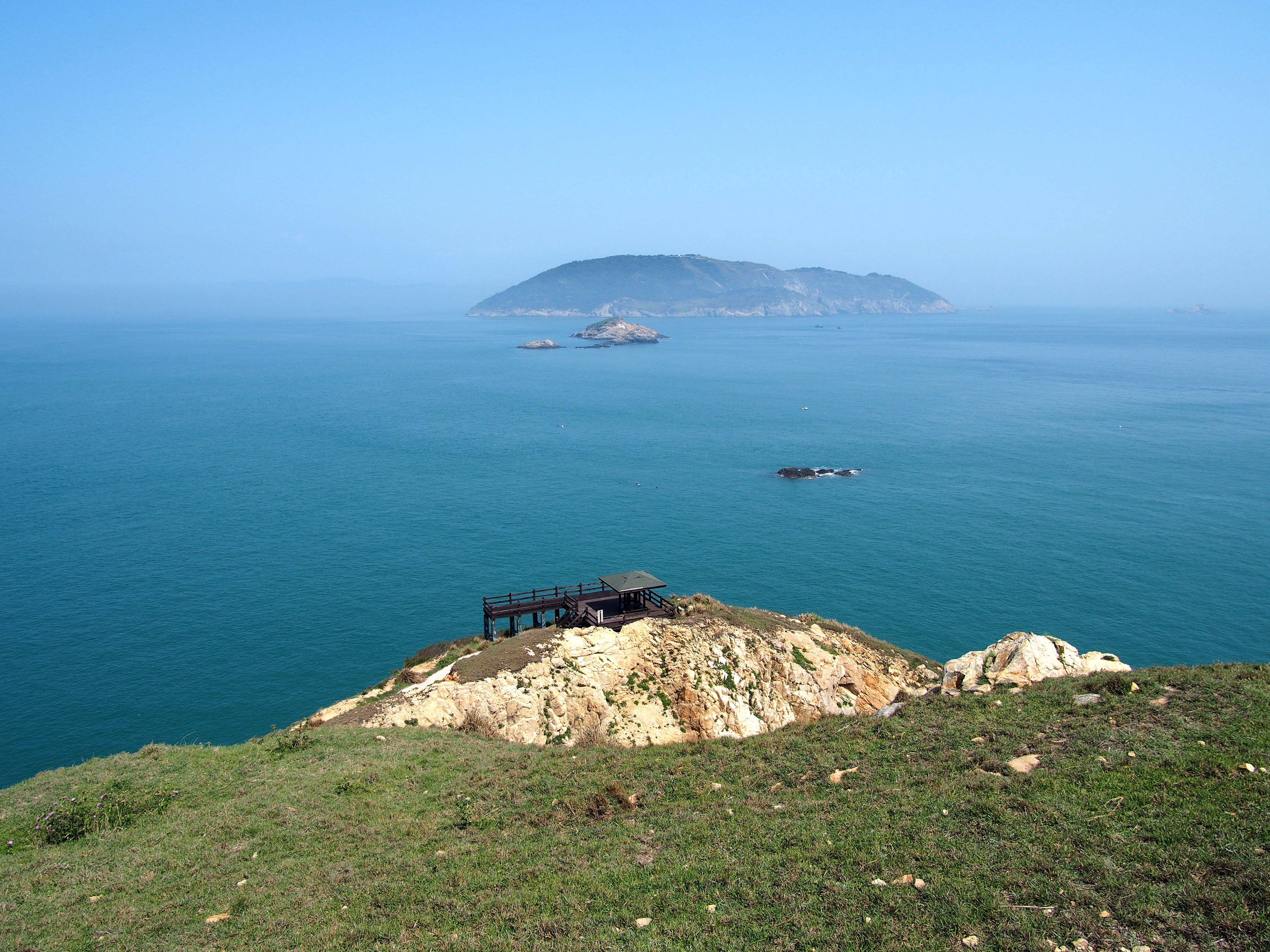 Pavilion and Gaodeng Island - 2015.05